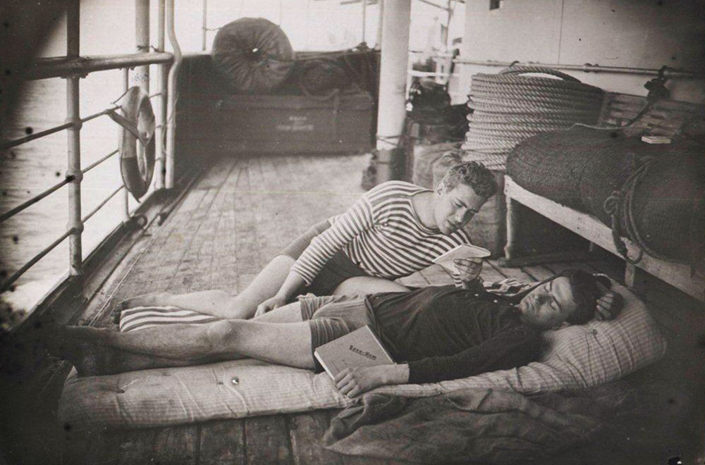 Olexandr Maryamov and Mykola Trublaini aboard the Litke Icebreaker. Summer 1929